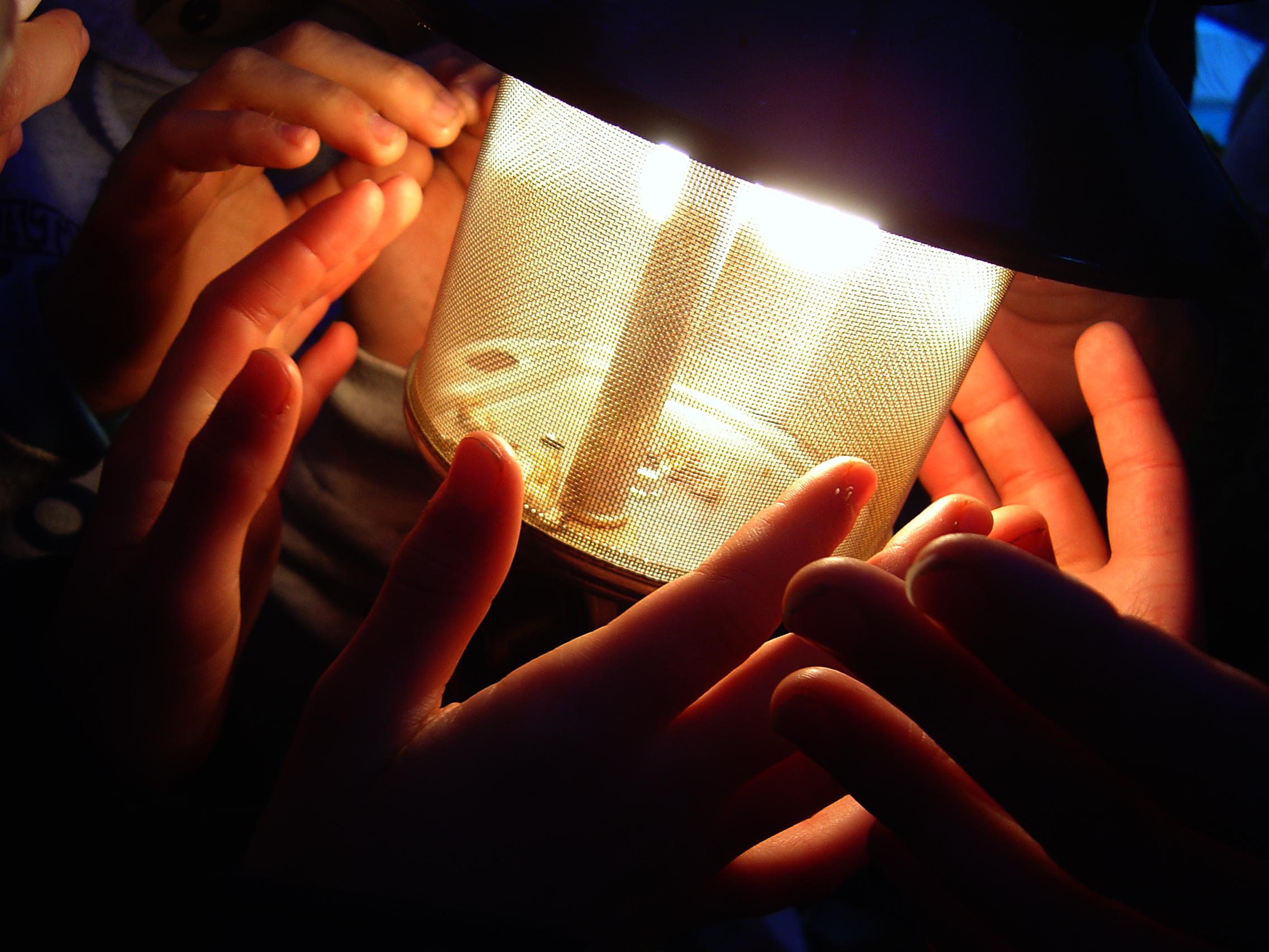 Scouts warm their hands around a lantern at camp.